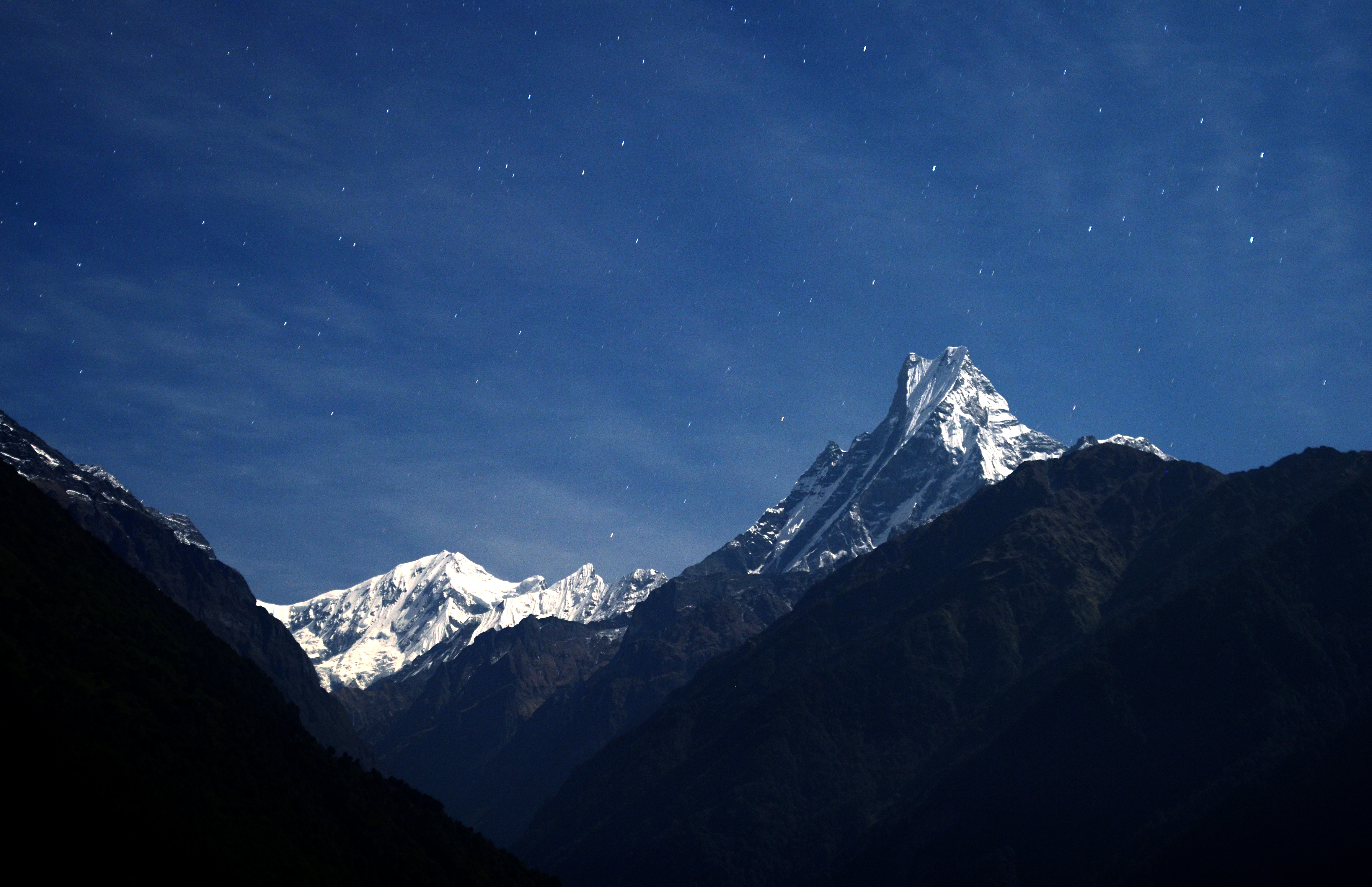 A view of Mount Machhapuchchhre (Mt. Fishtail) seen from Chomrong, Kaski, Nepal.Elevation:6,993 m (22,943 ft) Prominence :1,233 m (4,045 ft) नेपाली: नेपालको कास्की जिल्लामा अवस्थित छोमरोङवाट देखिएको माछापुच्छ्रे हिमालको एक मनोरम दृश्य ।उचाई:६,९९३ m (२२,९४३ ft)